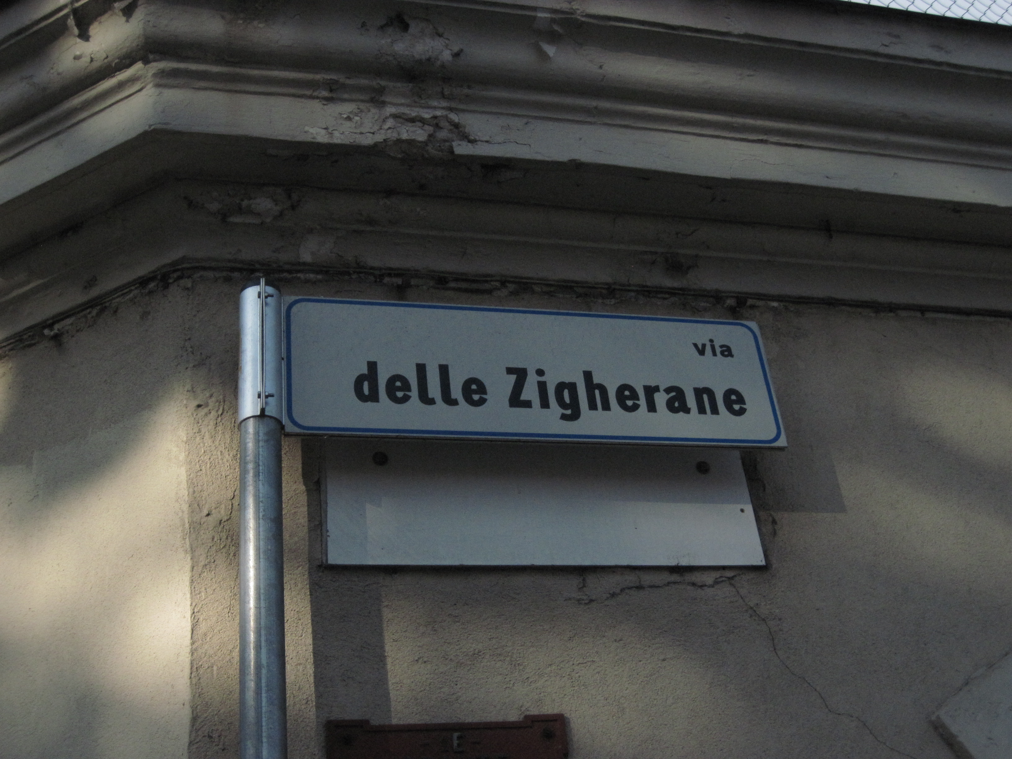 zigherane road Rovereto